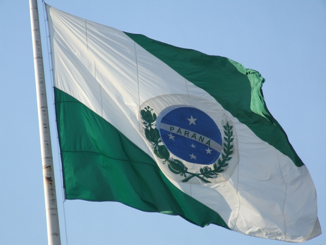 Flag of Brazilian state of Paraná hoisted at the Iguaçu Palace, in Curitiba, Paraná, Brazil.